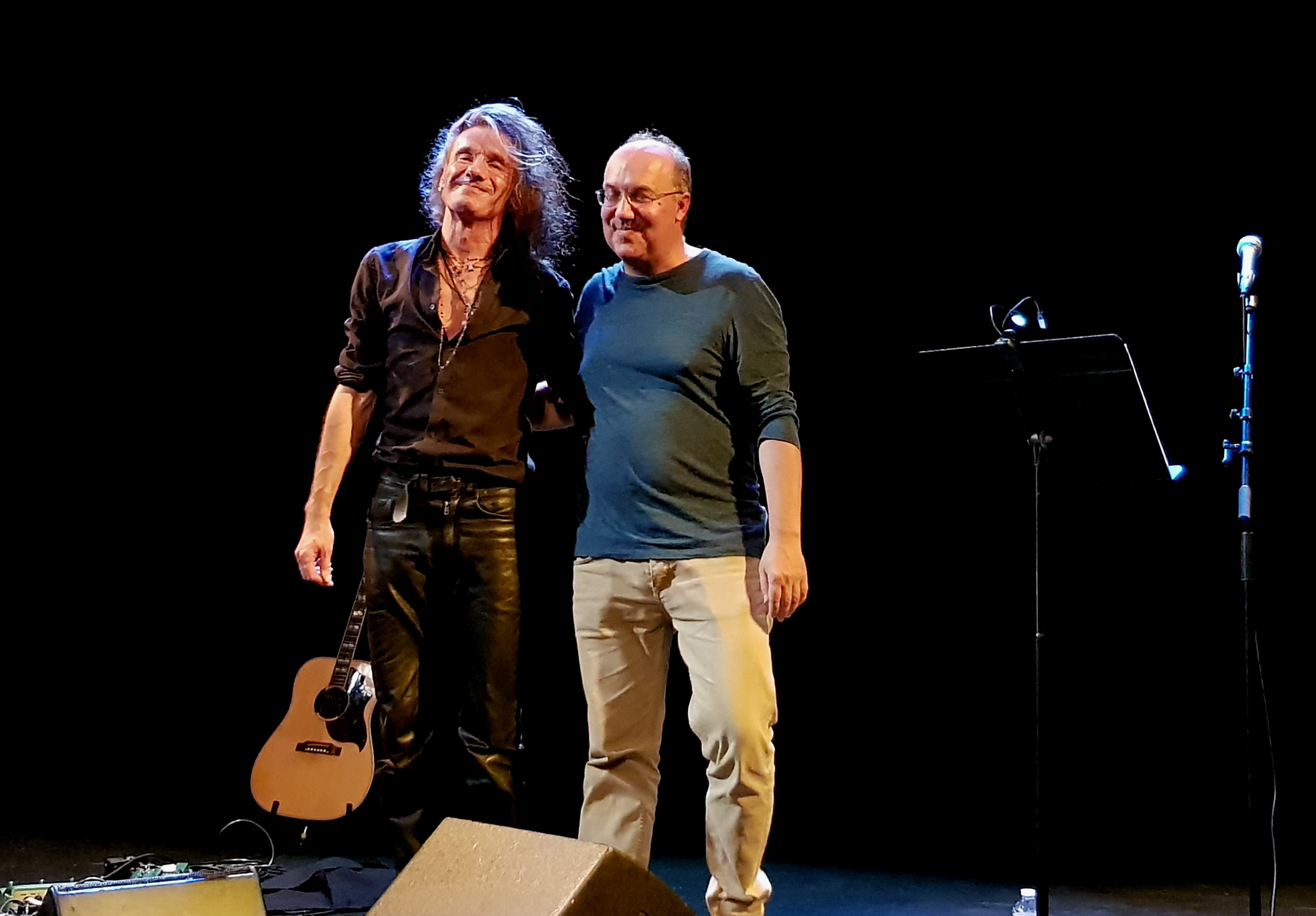 Concert-reading "Entrer dans la couleur" (To enter the color) - Yan Péchin (left) - Alain Damasio (right) October 10th, 2019 - Viroflay Library